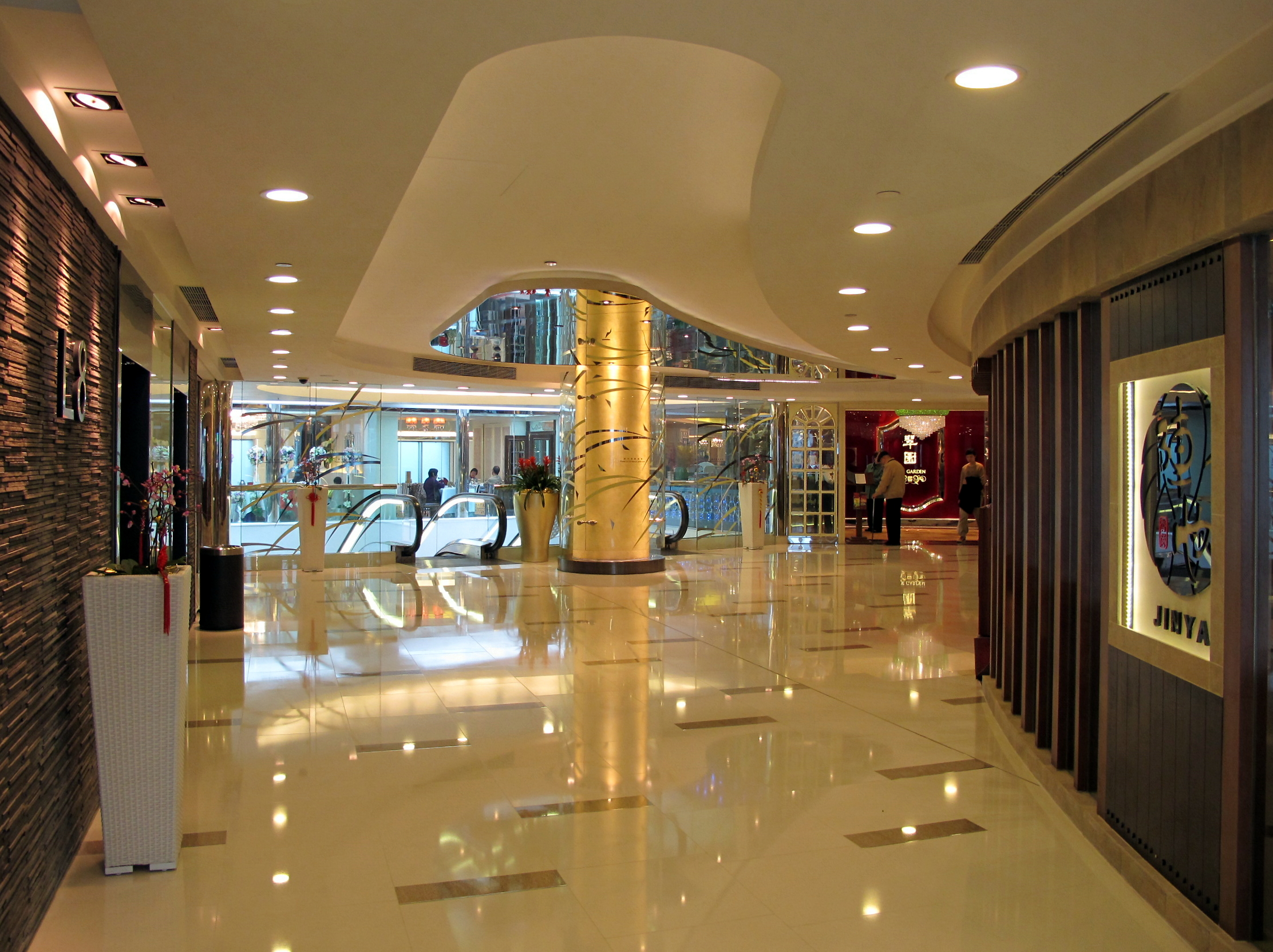 Grand Century Place Level 7 新世紀廣場